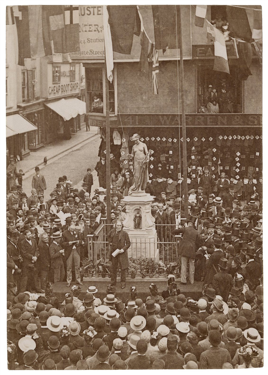 Henry Irving unveiling the Marlowe Memorial in Buttermarket, Canterbury, England, on 16 September 1891 (some sources say 16 December 1891)